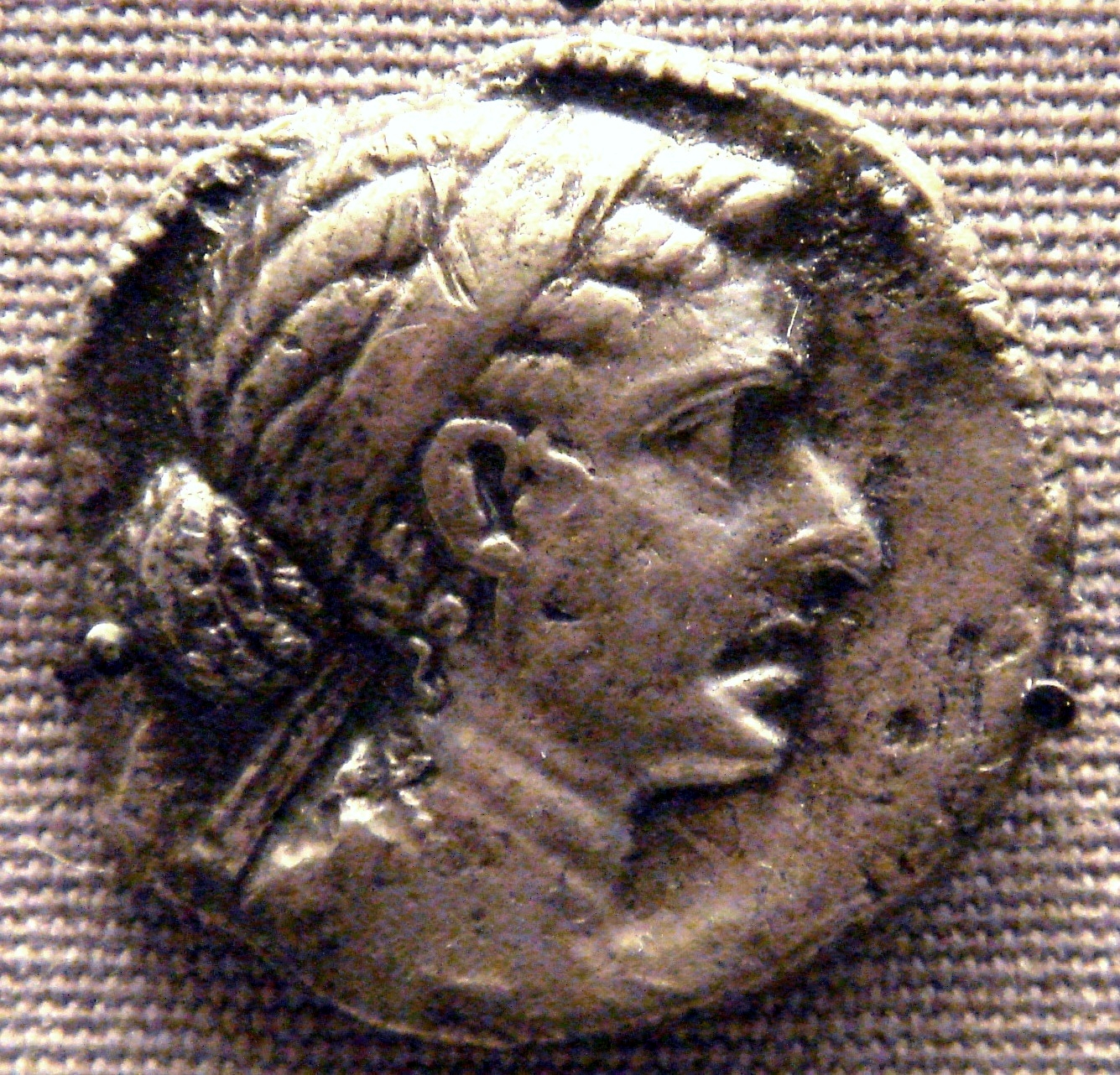 Cleopatra_VII_tetradrachm_Ascalon_mint